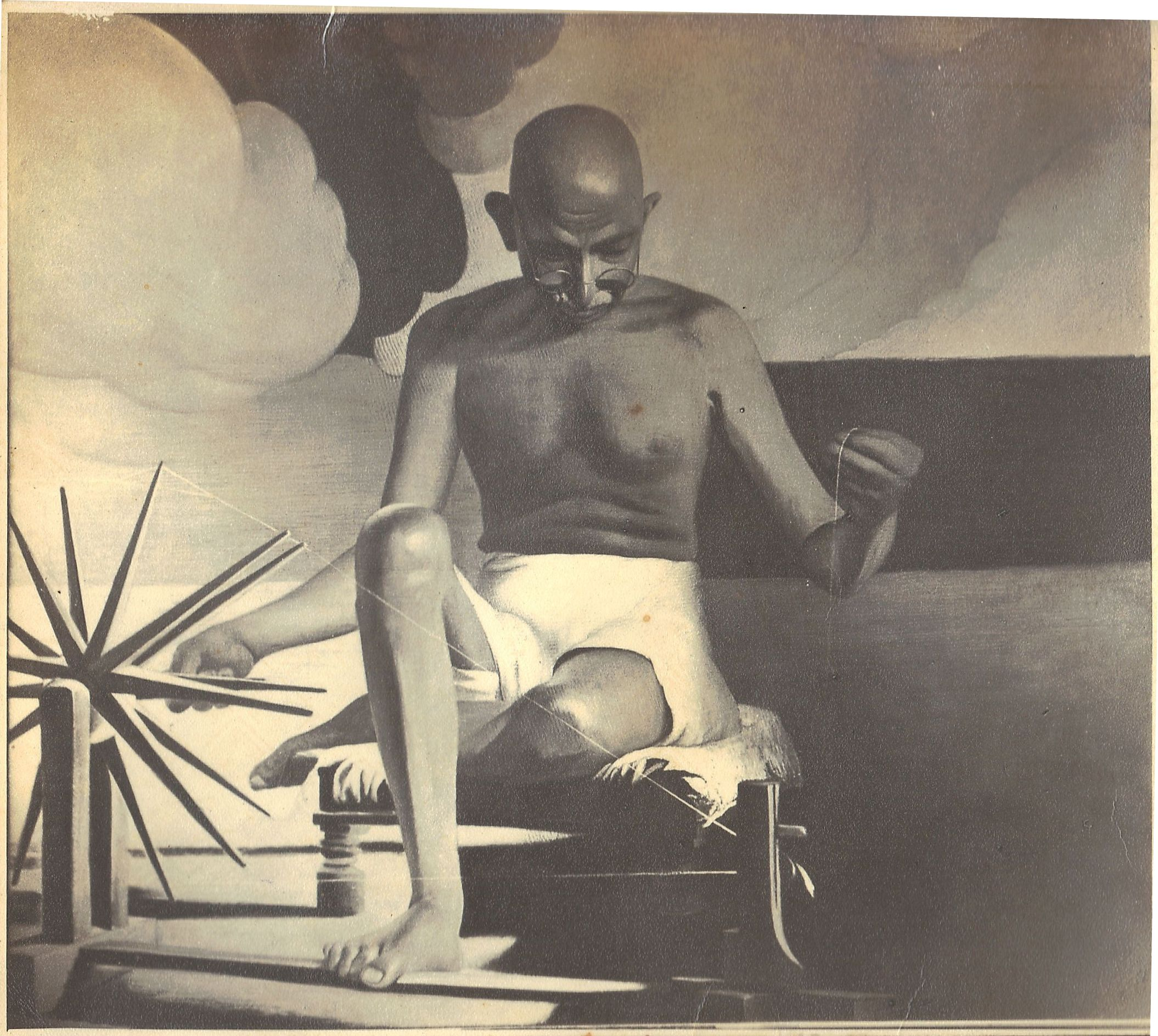 Painting of Gandhiji by G. M. Solegaonkar